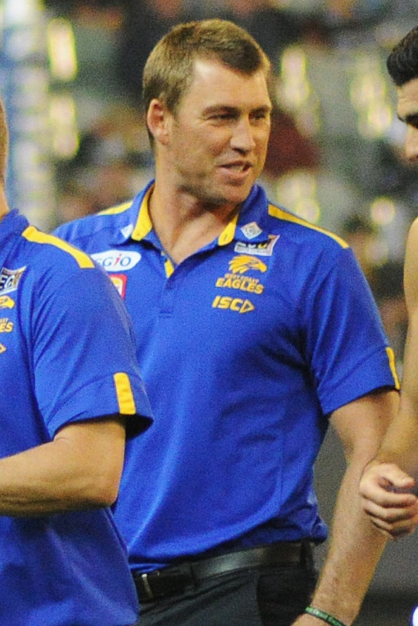 Daniel Pratt during the AFL round five match between Carlton and West Coast on 21 April 2018 at the Melbourne Cricket Ground in Melbourne, Victoria.